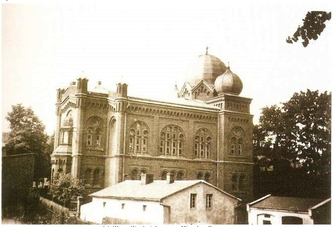 Synagogue of Rosenberg (now Olesno in Poland), built in 1889 and destroyed during Kristal Nacht in 1938.